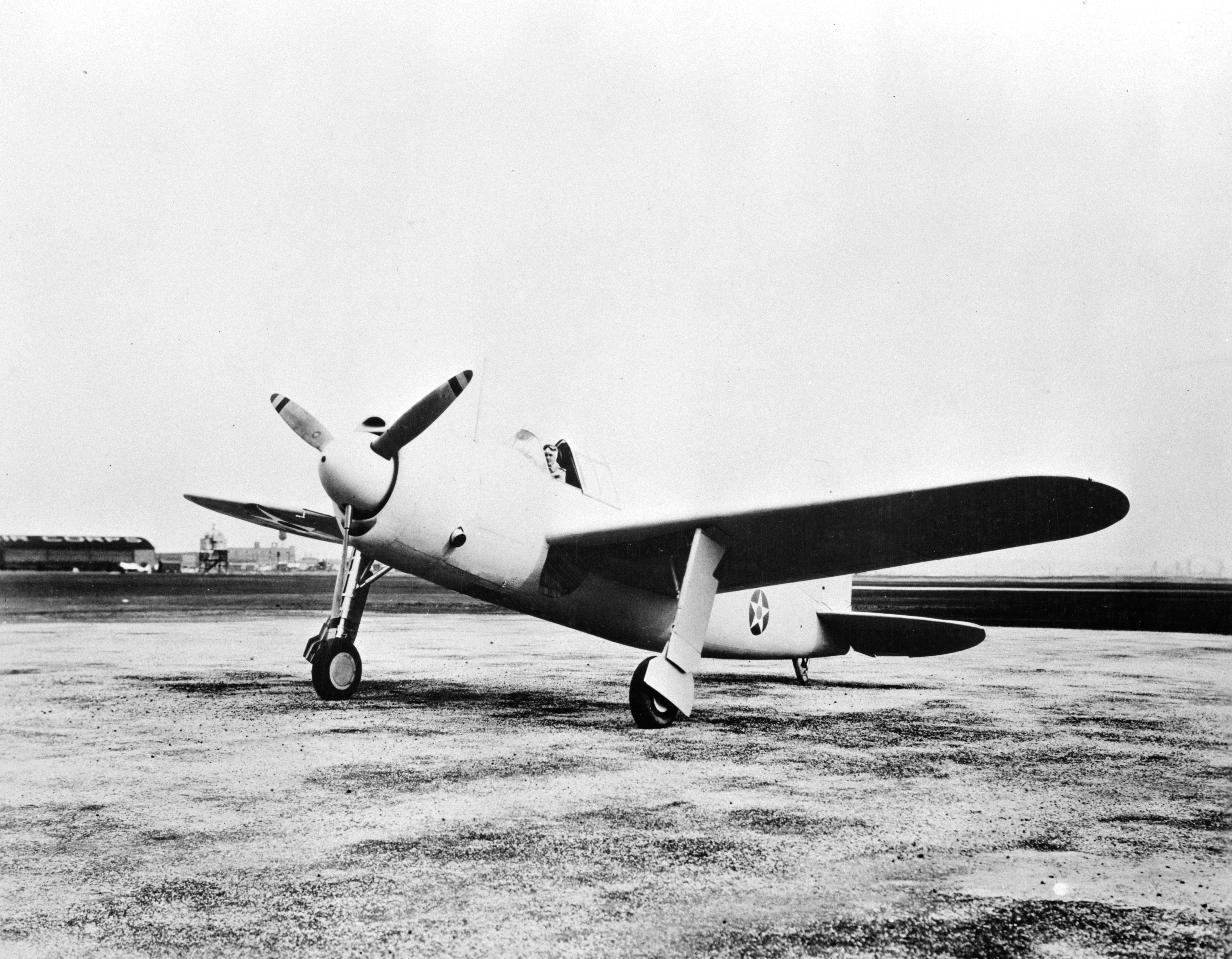 Original caption: "Aircraft. Naval. The Brewster "Buccaneer" (SB2A-1) is used by the Navy as scout dive bomber and escort plane. It is powered by a single-row Wright cyclone engine of 1,650 horsepower, has a top speed of about 350 miles per hour, a range of about 1,000 miles and a load capacity up to 11,000 pounds."